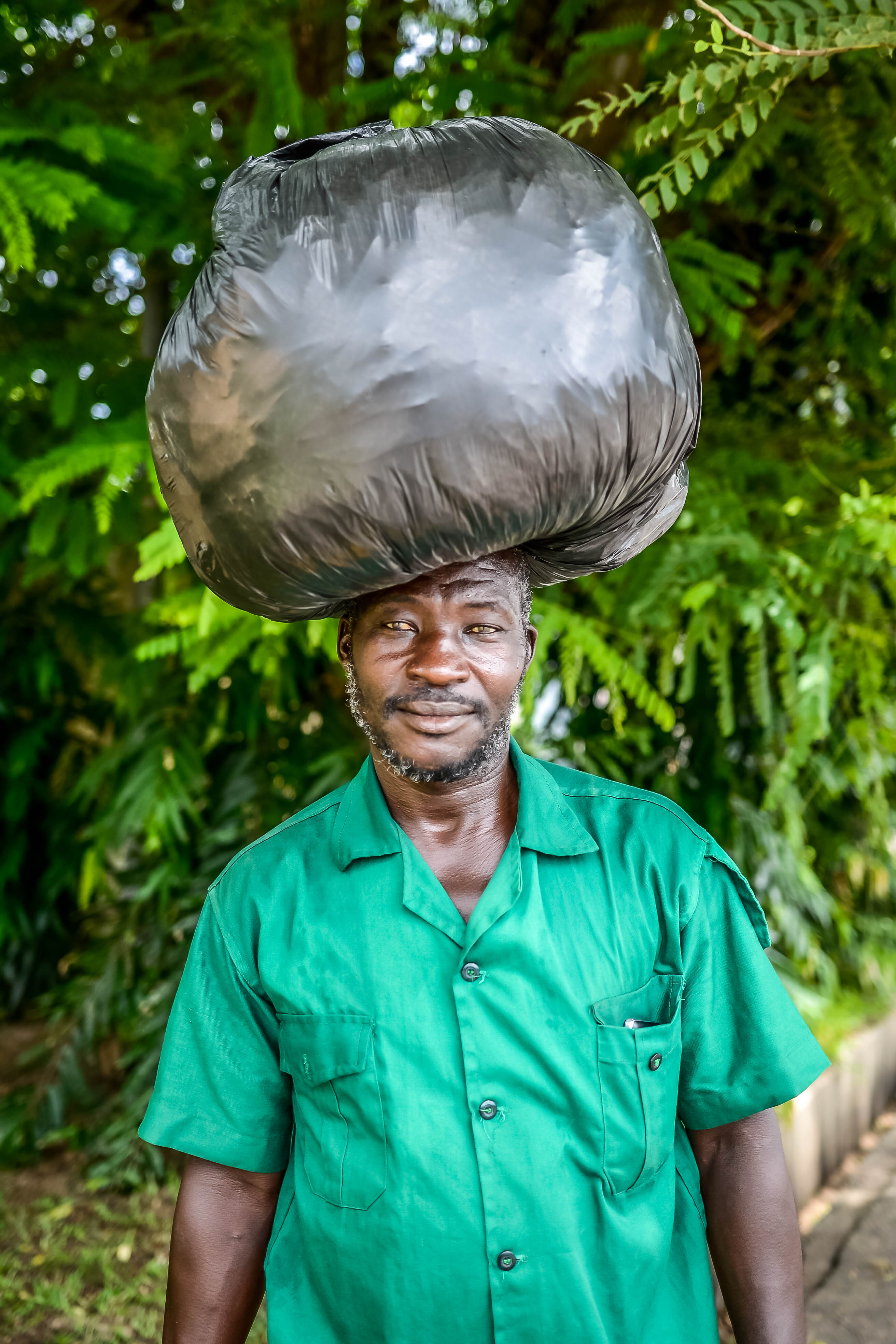 Laveur de linges à la main qui se déplace de maison à maison pour le ramassage de linges sale This is an image with the theme "Africa on the Move or Transport" from: Ivory Coast